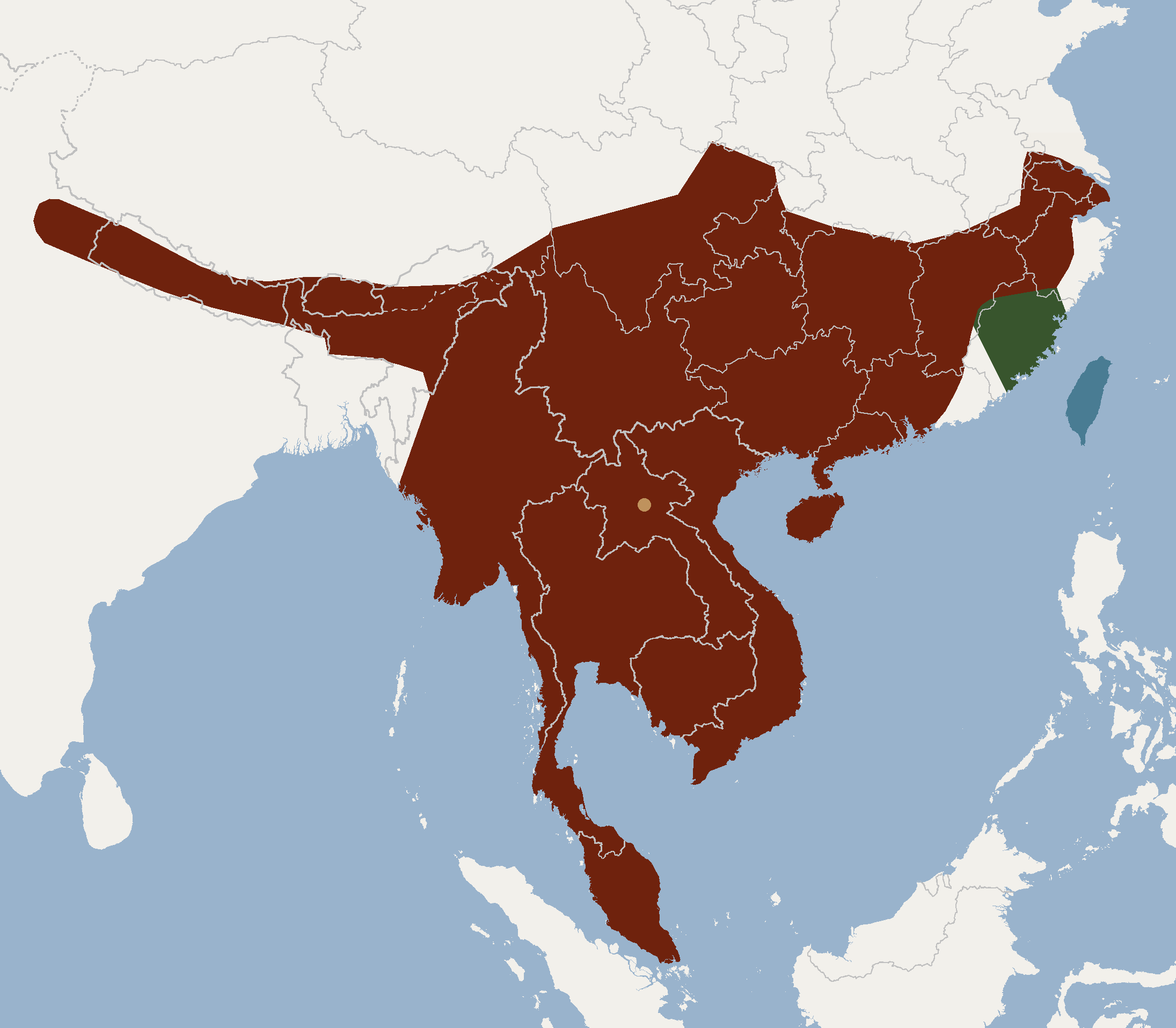 According to Smith & Xie, 2008 and Francis, 2008. subspecific range in different colours. H.a.armiger H.a.fujianensis H.a.terasensis H.a.tranninhensis